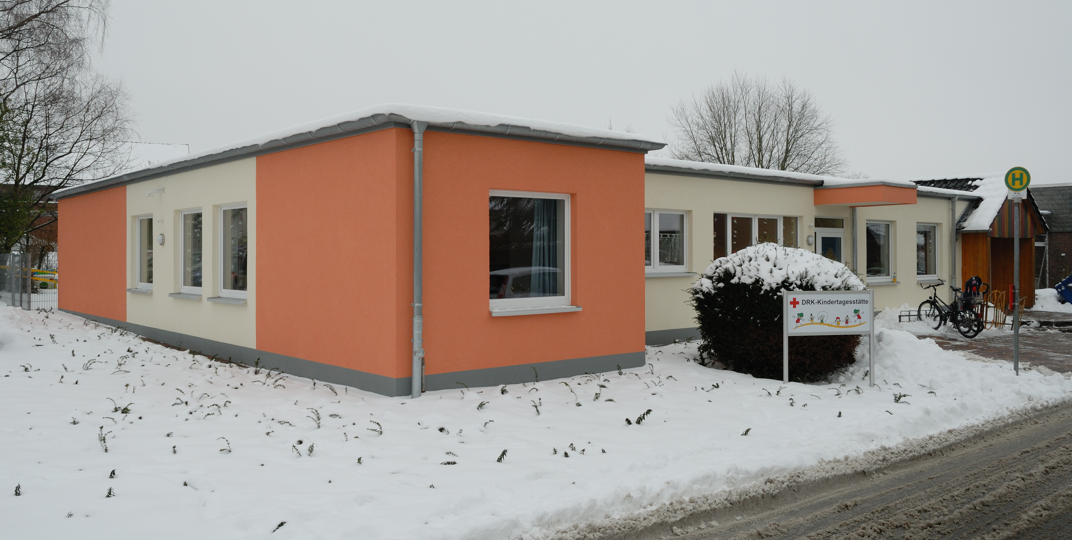 Kindergarten of DRK (German Red Cross) in Hilter.